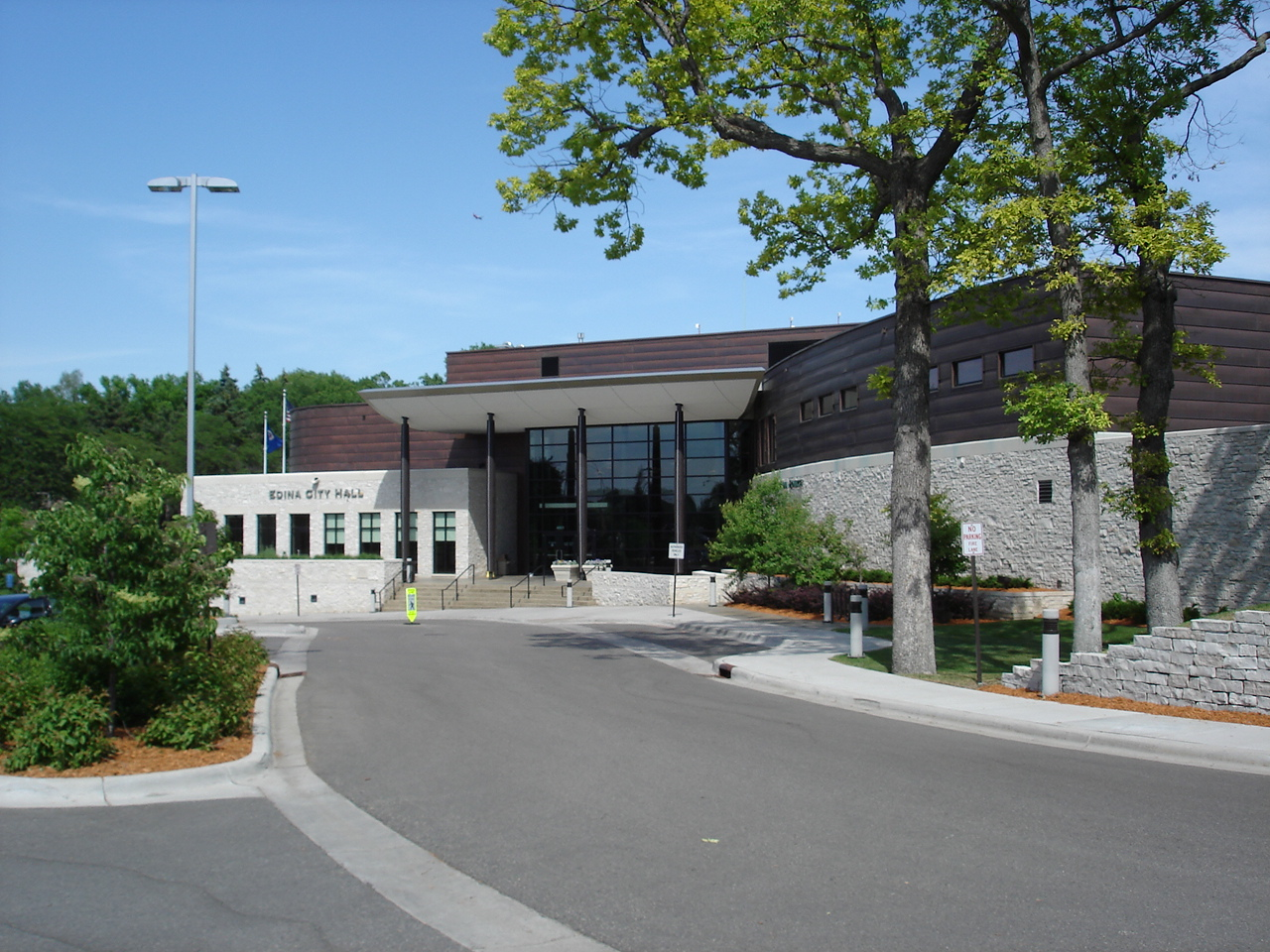 I took this on June 12, 2006